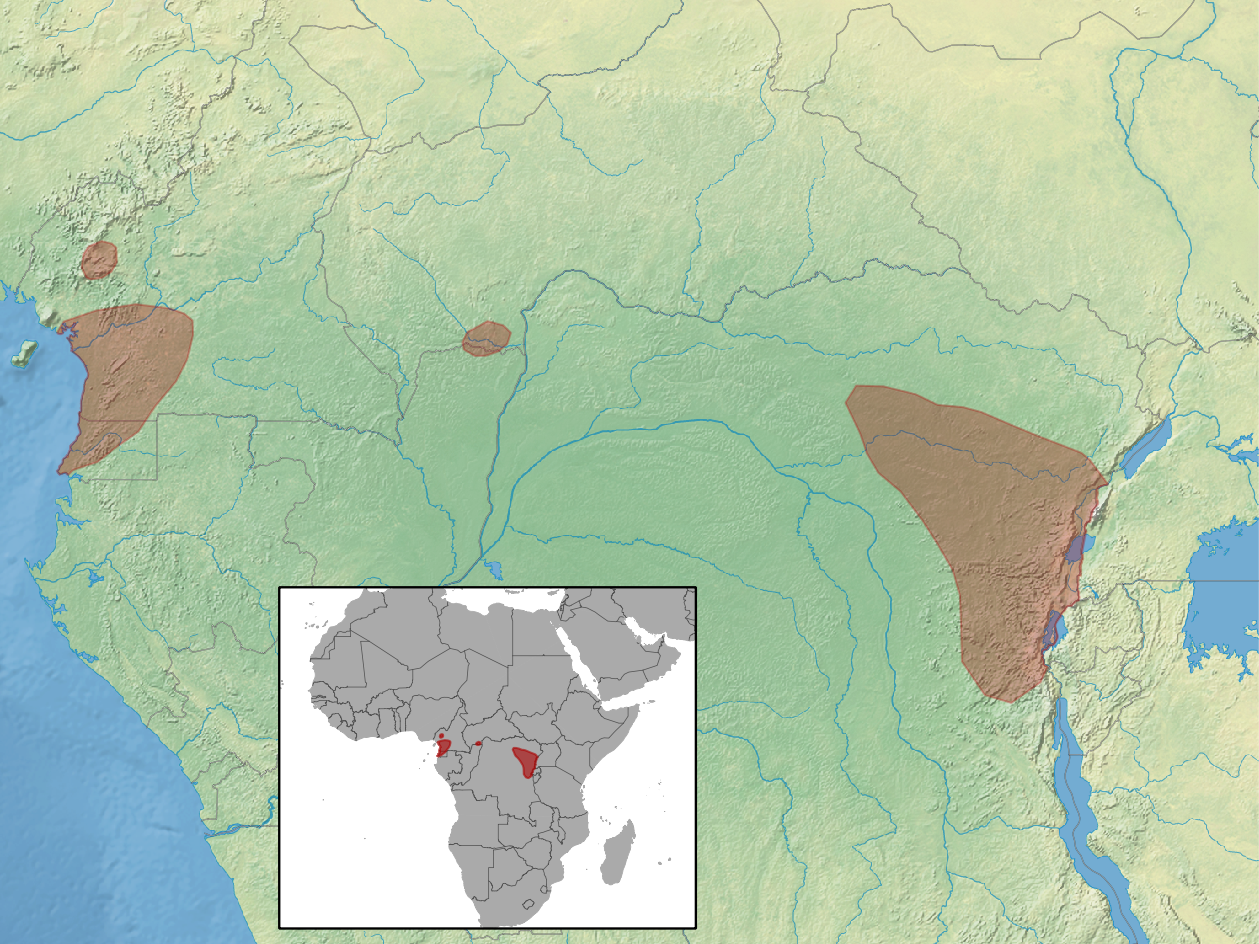 geographic distribution of Idiurus zenkeri